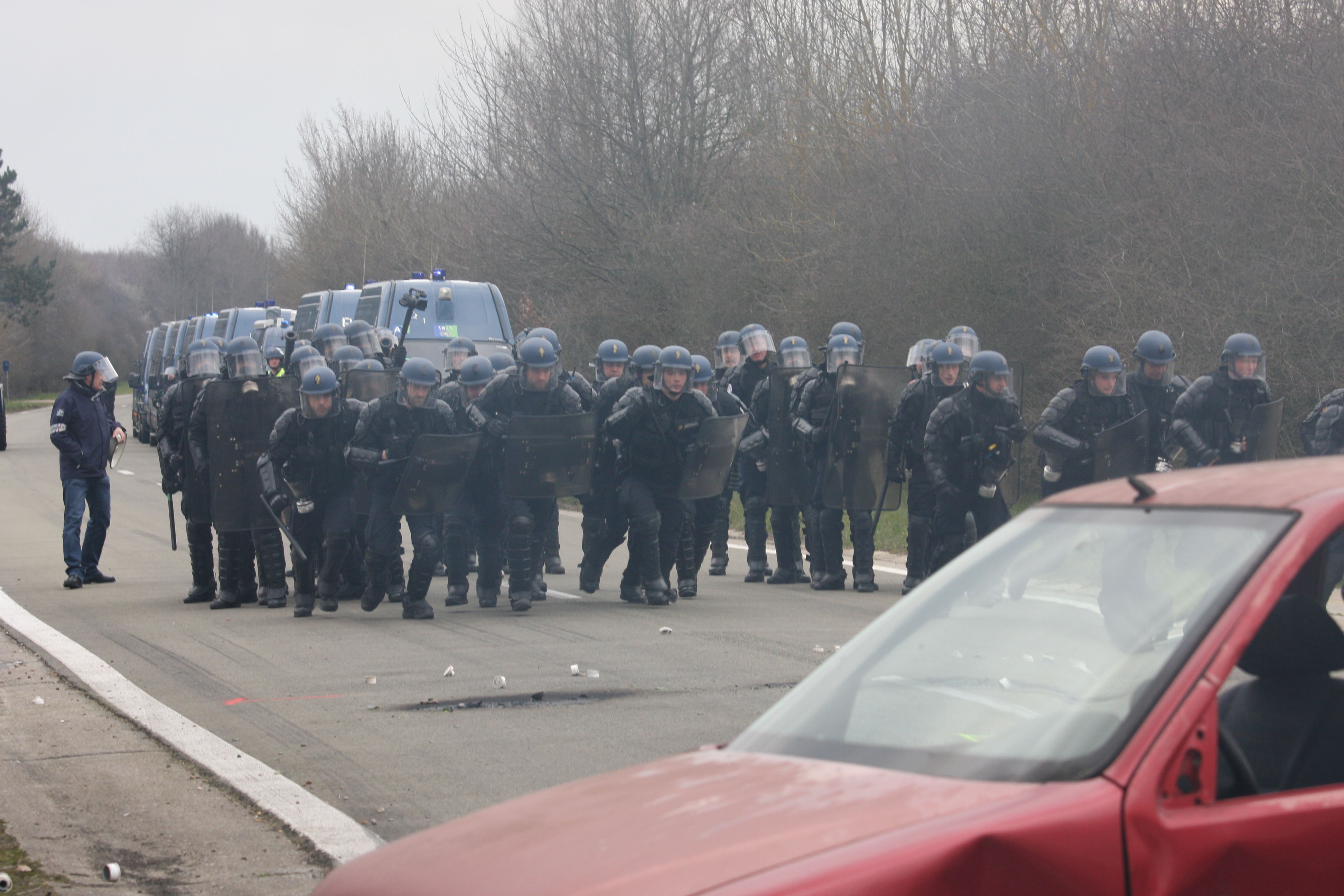 French Mobile Gendarmerie "Intervention" platoon practicing riot control